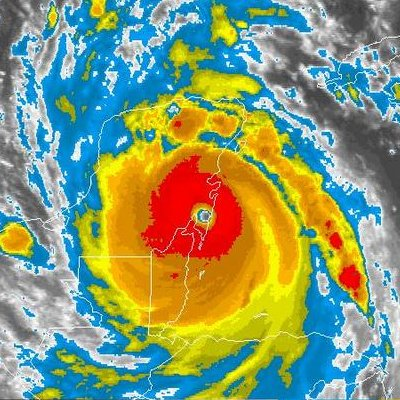 Hurricane Dean making its landfall on the Yucatán Peninsula as a Category 5 hurricane. Image from a NOAA GOES satellite, using the AVN color enhancement on August 21, en:2007 at 08:45 (UTC)